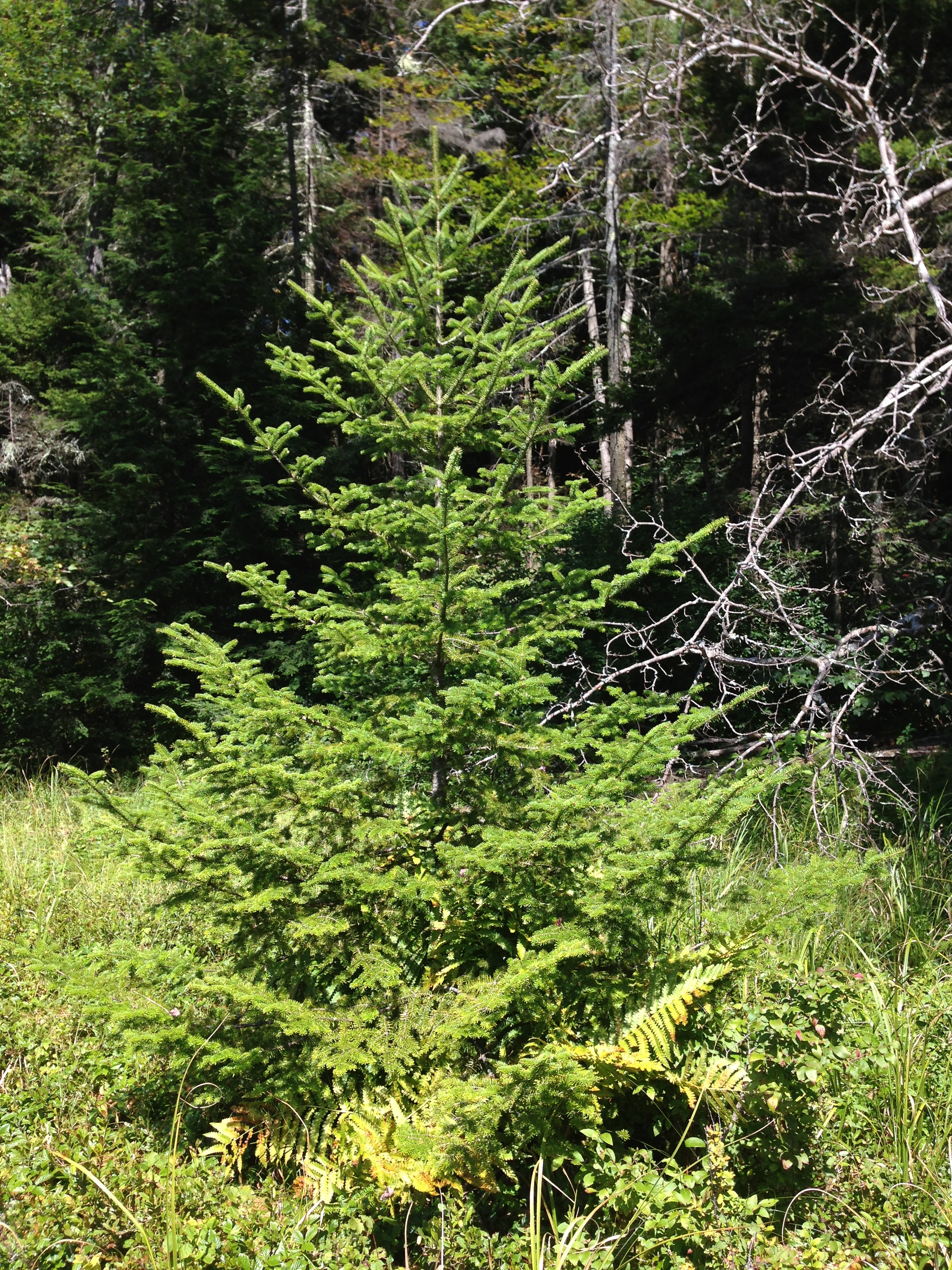 Balsam Fir sapling along the northeast shore of the cove of Spring Lake in Berlin, New York on August 25th 2013